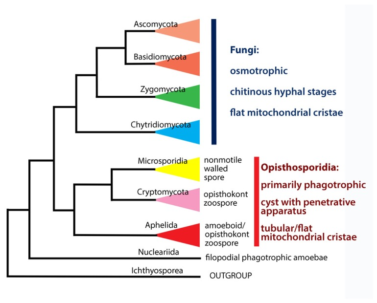 Phylogenetic and taxonomic summary of early diverged groups of Holomycota.